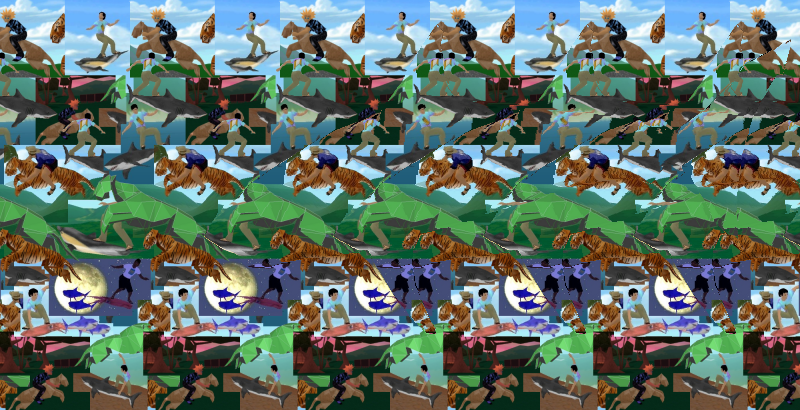 Autostereogram Tutorial Stereogram with Clear Bottom Strip Description: The bottom part of this autostereogram is clear of any 3D image, thus the patterns in this area are repeated at constant interval. Source: Fred Hsu, March 2005.